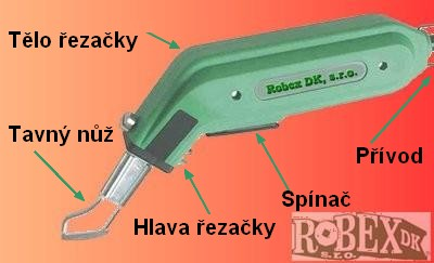 Subscribe of heat cutting machine